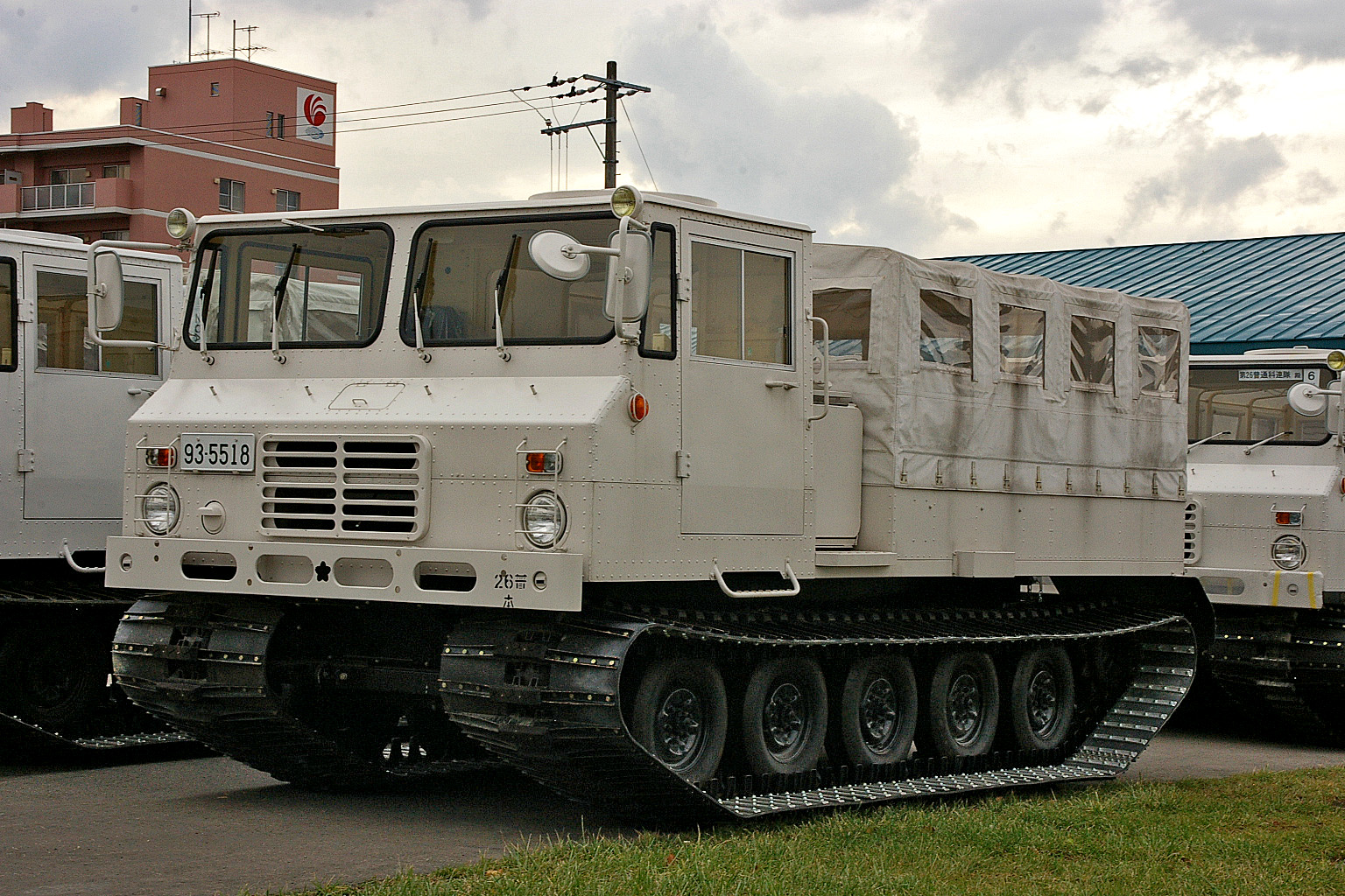 JGSDF Type78 Snow car.